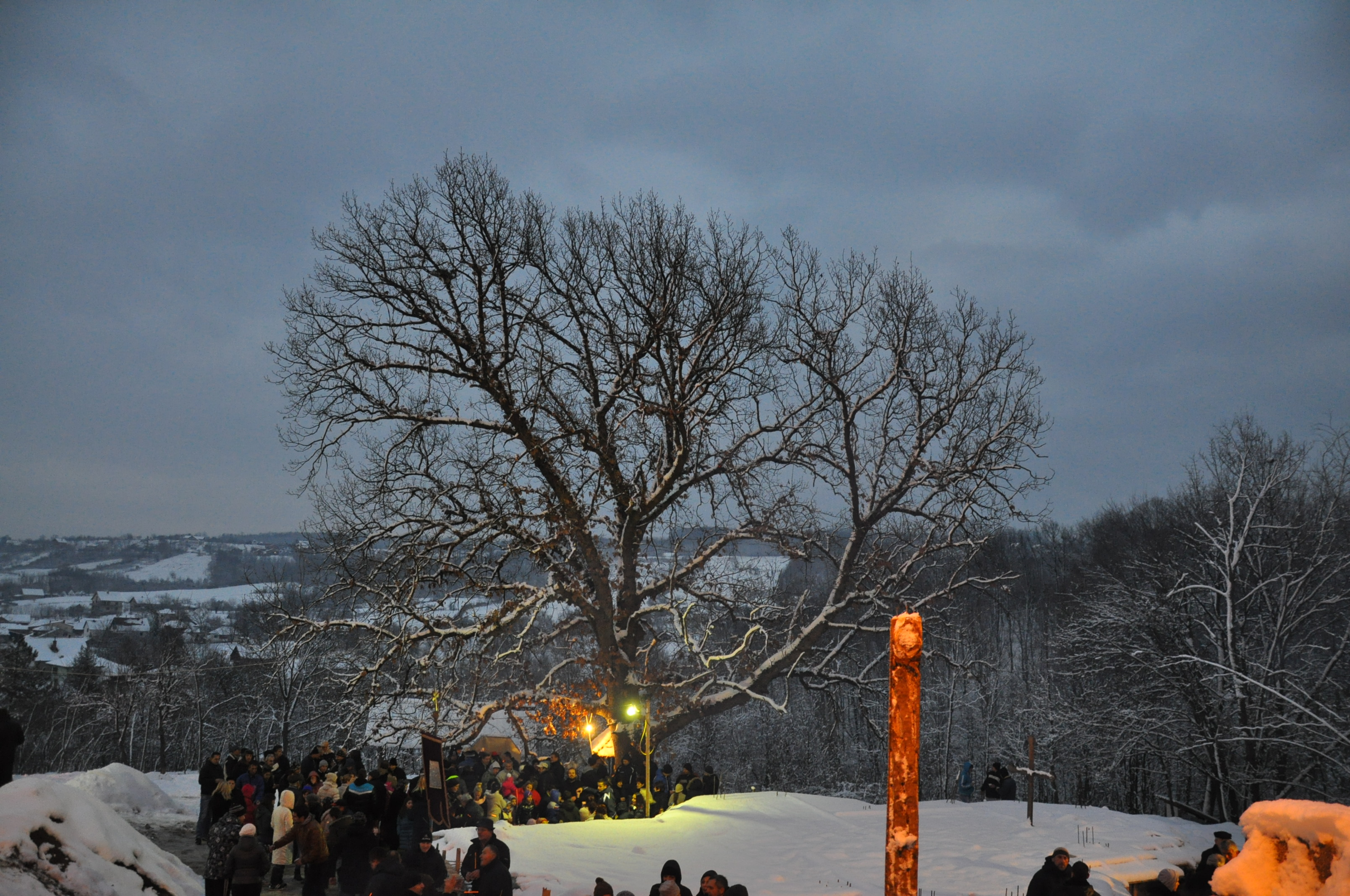 Zapis - Sacred Tree, Оак in village Trmbas, municipality Kragujevac, Serbia